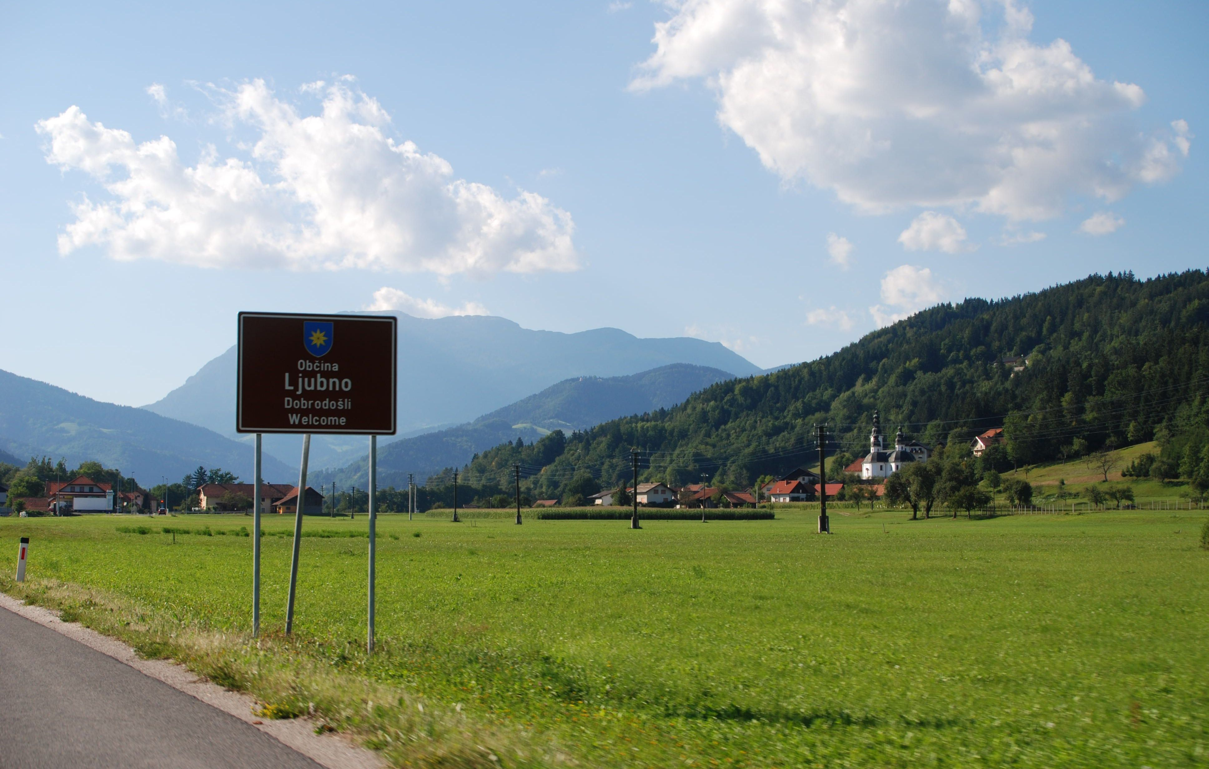 The border sign of the Municipality of Ljubno in the Upper Savinja Valley. In the background to the right, the church in Okonina.